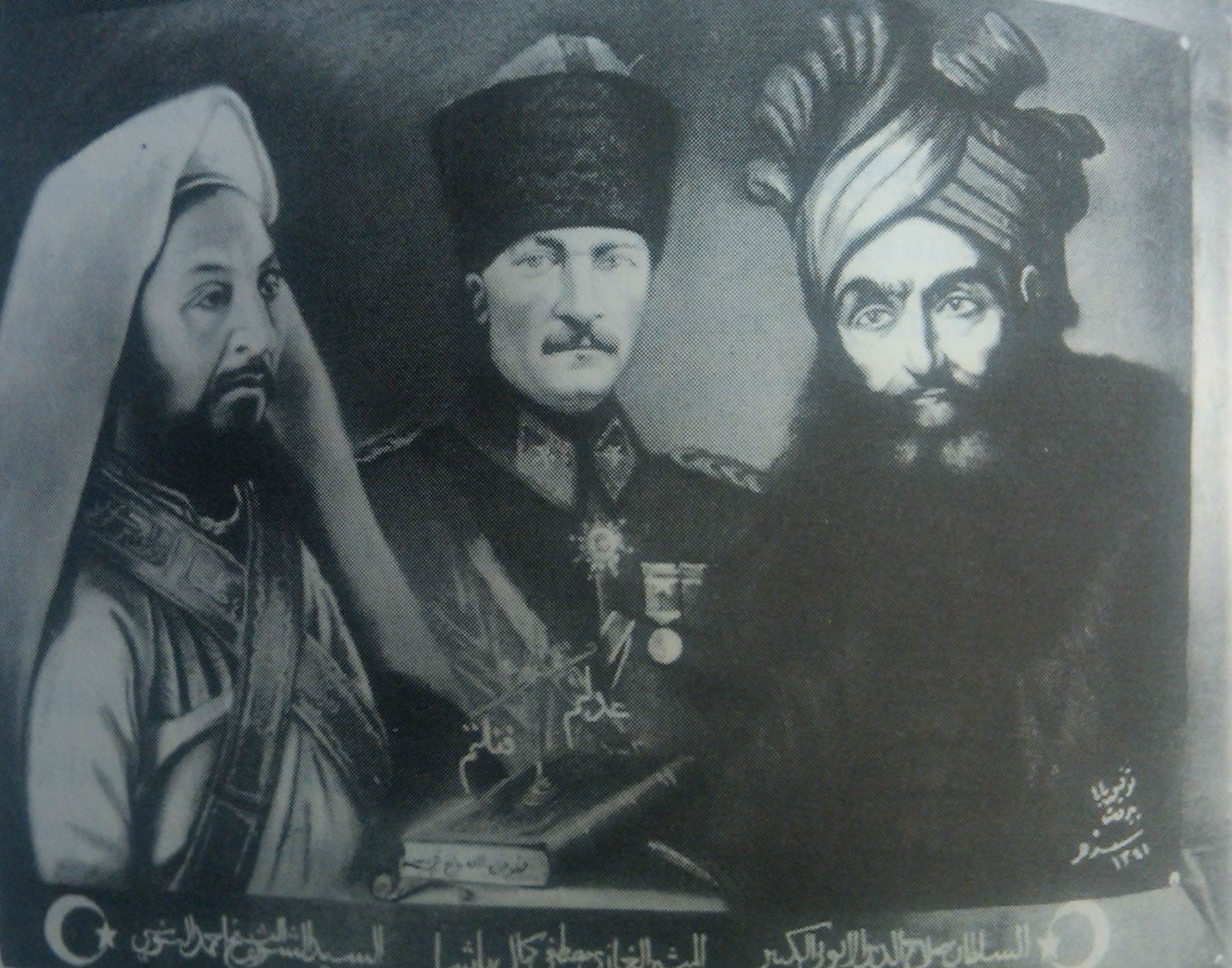 A postcard depicting Mustafa Kemal as a Muslim hero, with Ahmed Sharif as-Senussi (left) and Saladin (right). Scan from M. Sükrü Hanioglu (9 May 2011) Ataturk: An Intellectual Biography, Princeton University Press, p. 130 Retrieved on 5 June 2013. ISBN: 978-1-4008-3817-2.